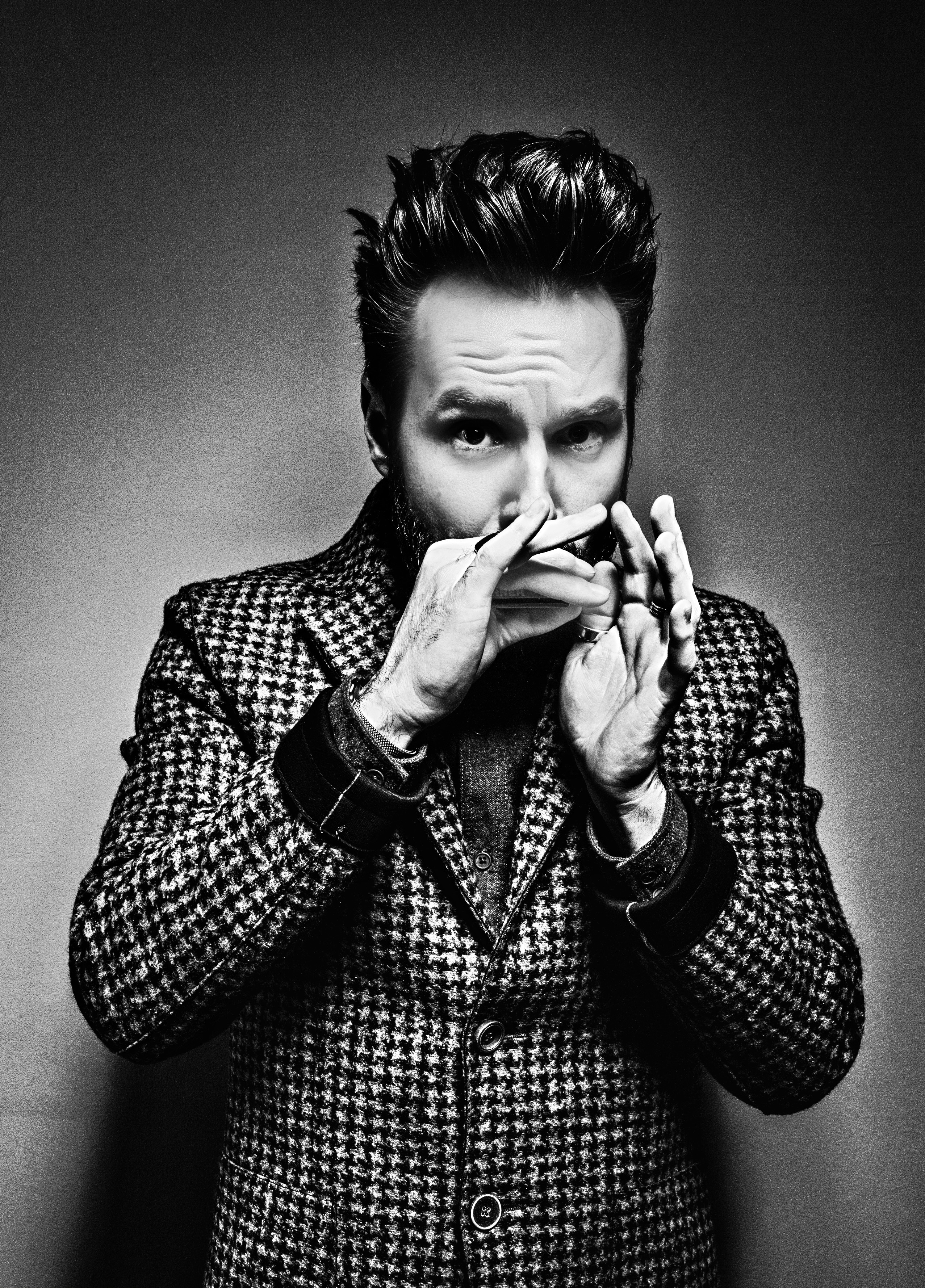 San2 playing harmonica